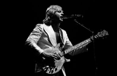 Maple Leaf Gardens, Toronto, Feb. 3, 1978